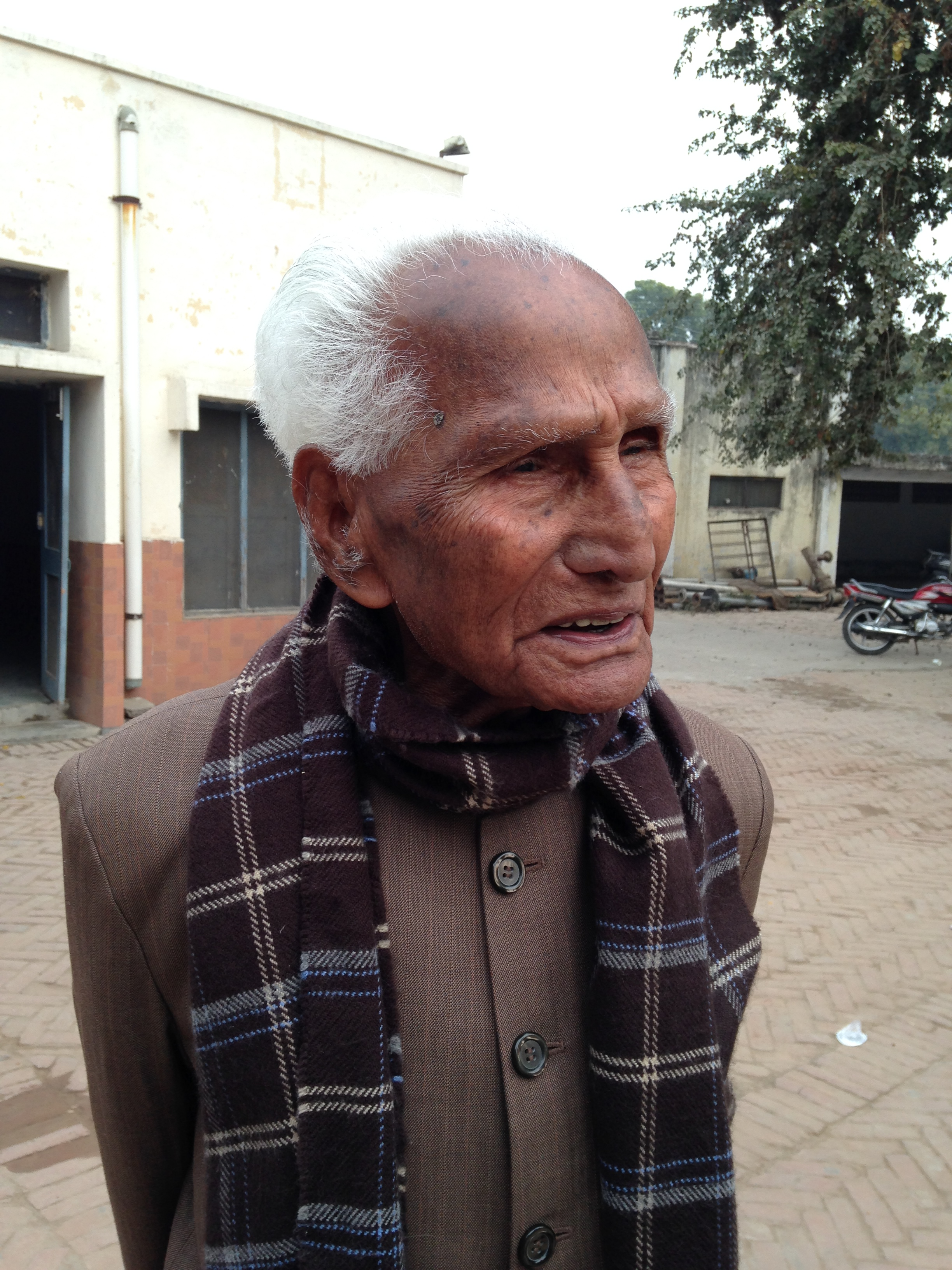 Communist Leader from Khanna